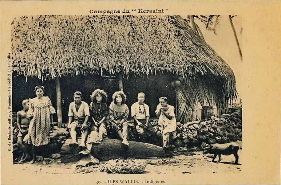 A group of Wallisian people in front of their fale (house). Note the basket case and the pig on the left. Photograph taken between 1907 and 1919 by sailors of the Kersant (French ship).